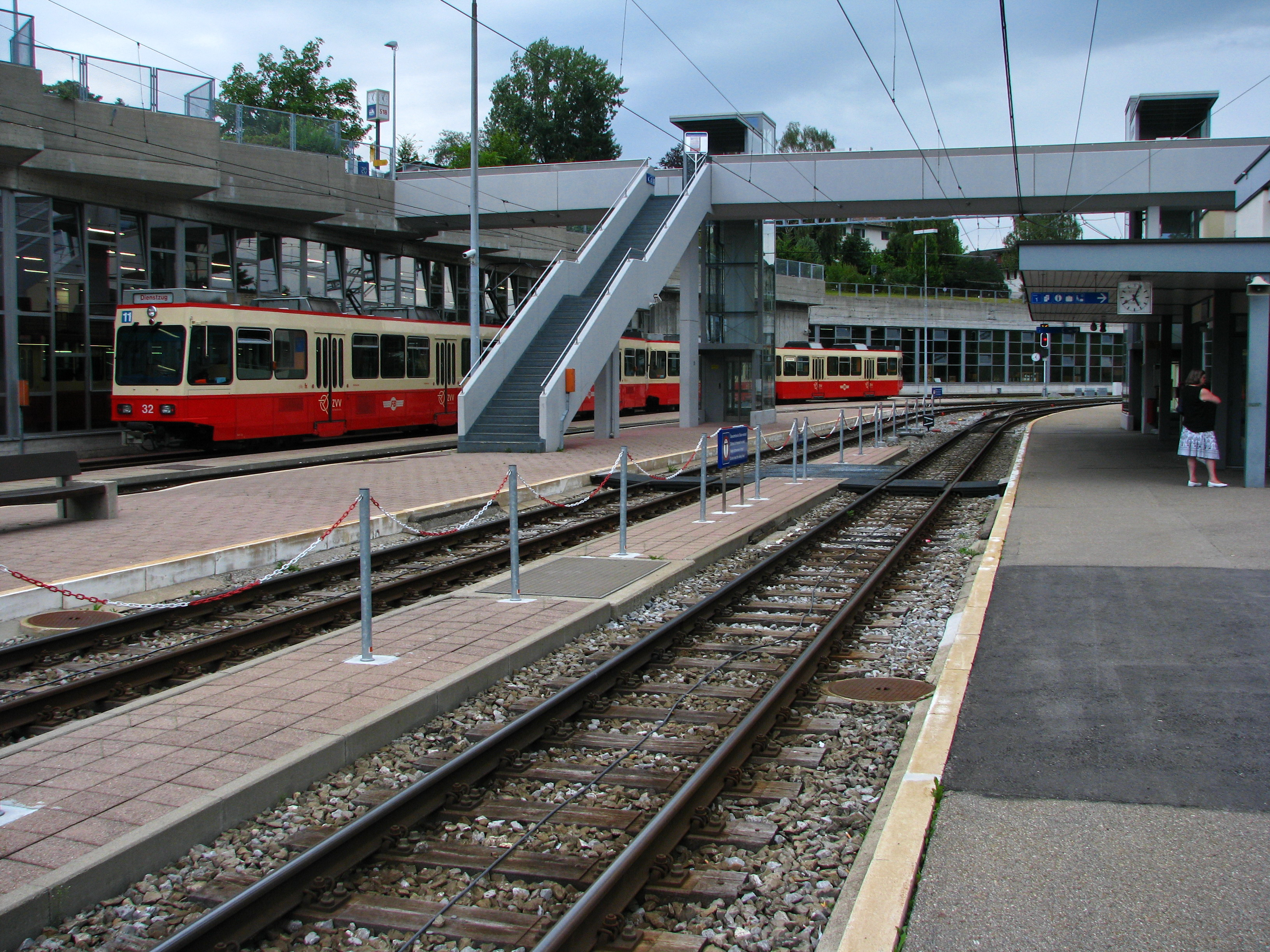 Forch train station and depot of the Forchbahn (Switzerland)